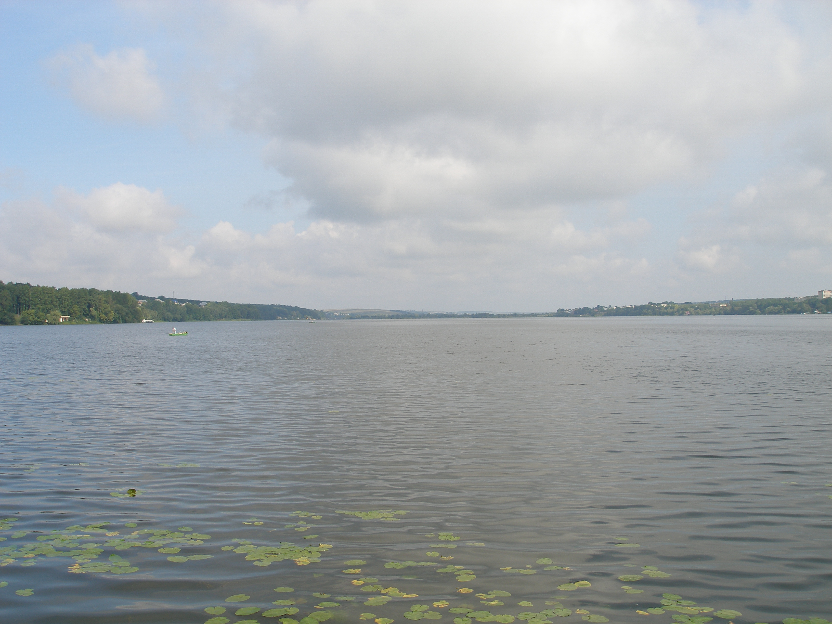 Ternopil Lake